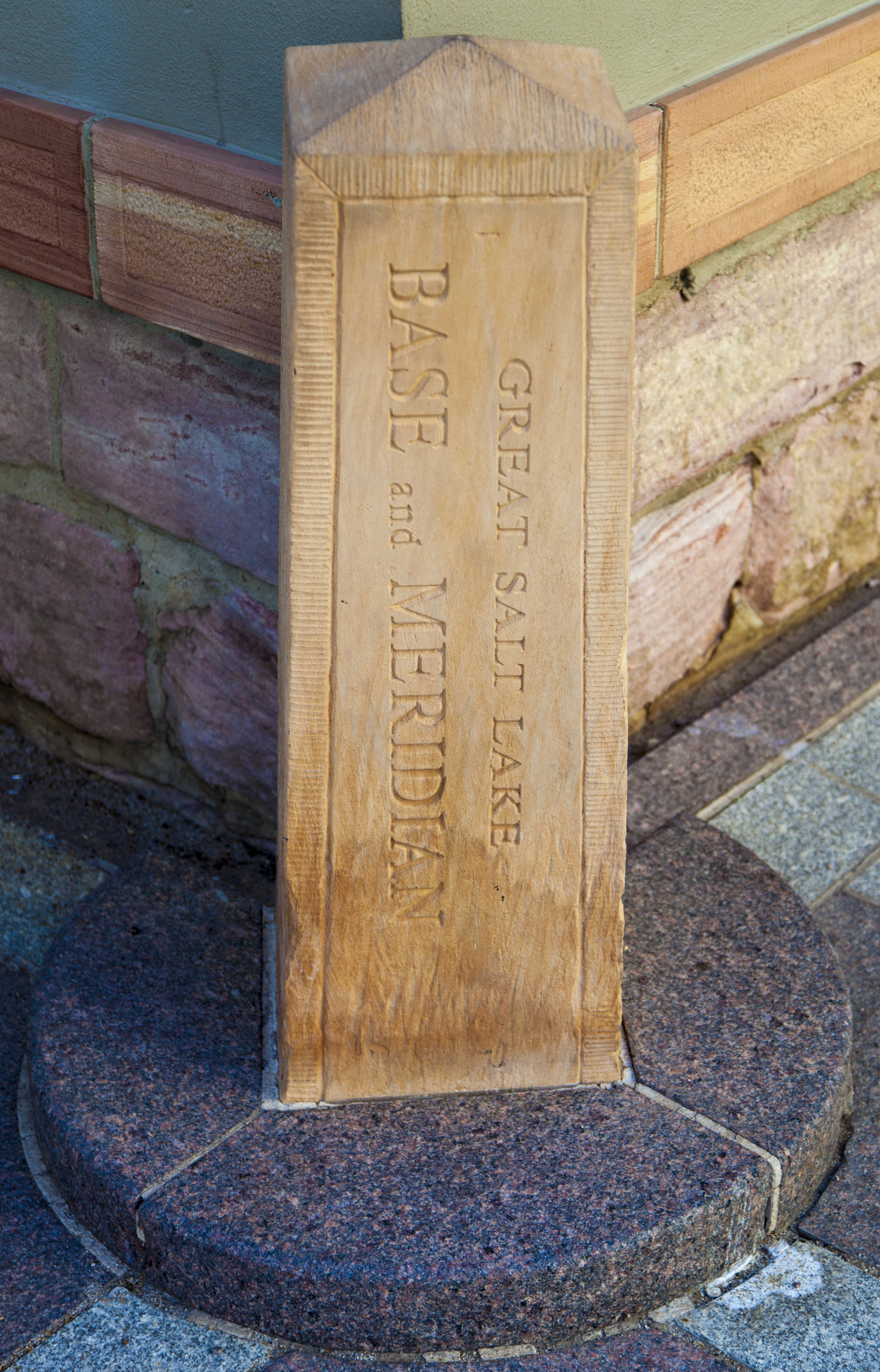 The Great Salt Lake Base and Meridian at the southeast corner of Temple Square in Salt Lake City, Utah, USA. Address coordinates for all cities in Salt Lake County originate from this point.